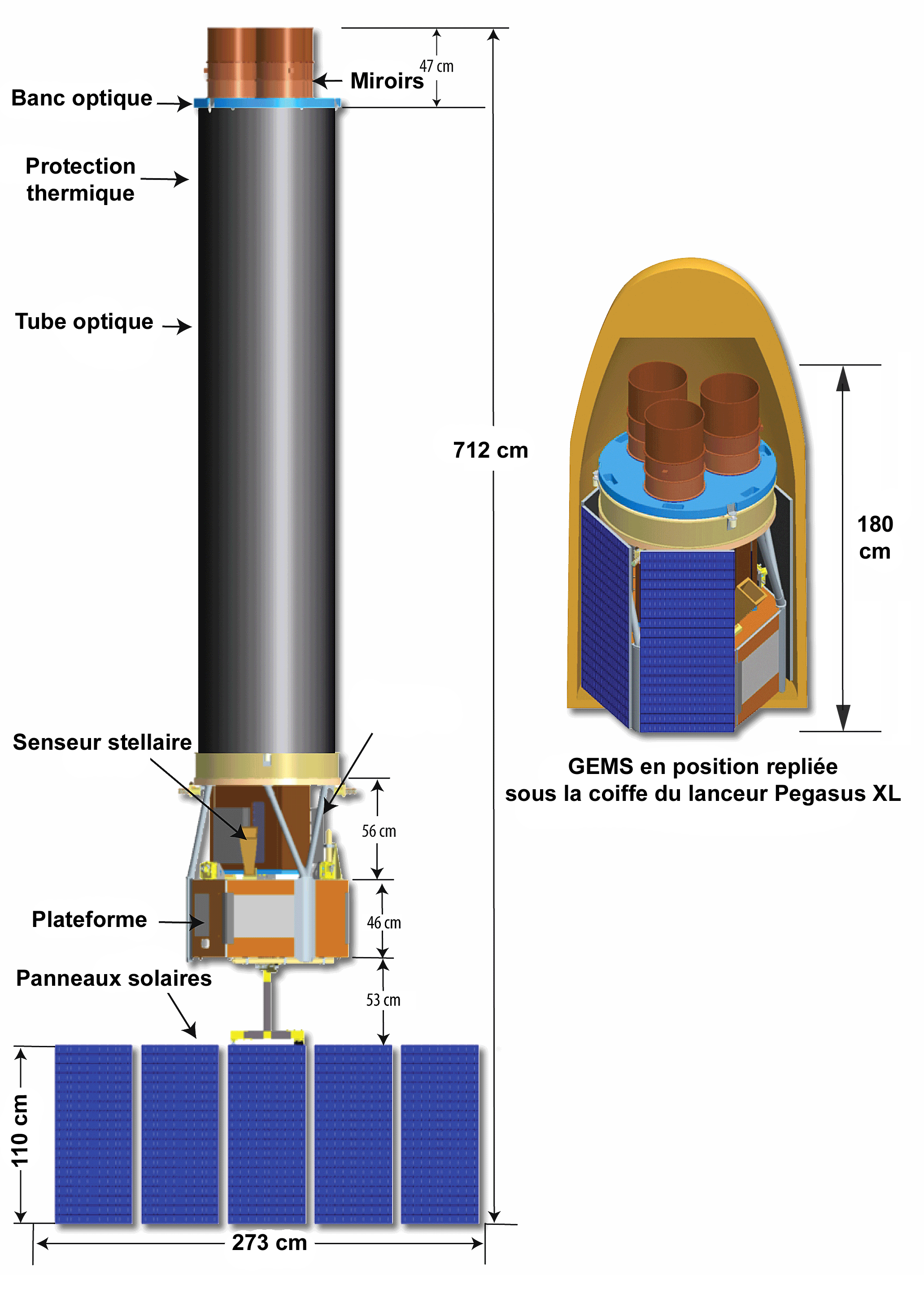 The space telescope GEMS stowed and unstowed. Labelled drawing, french version